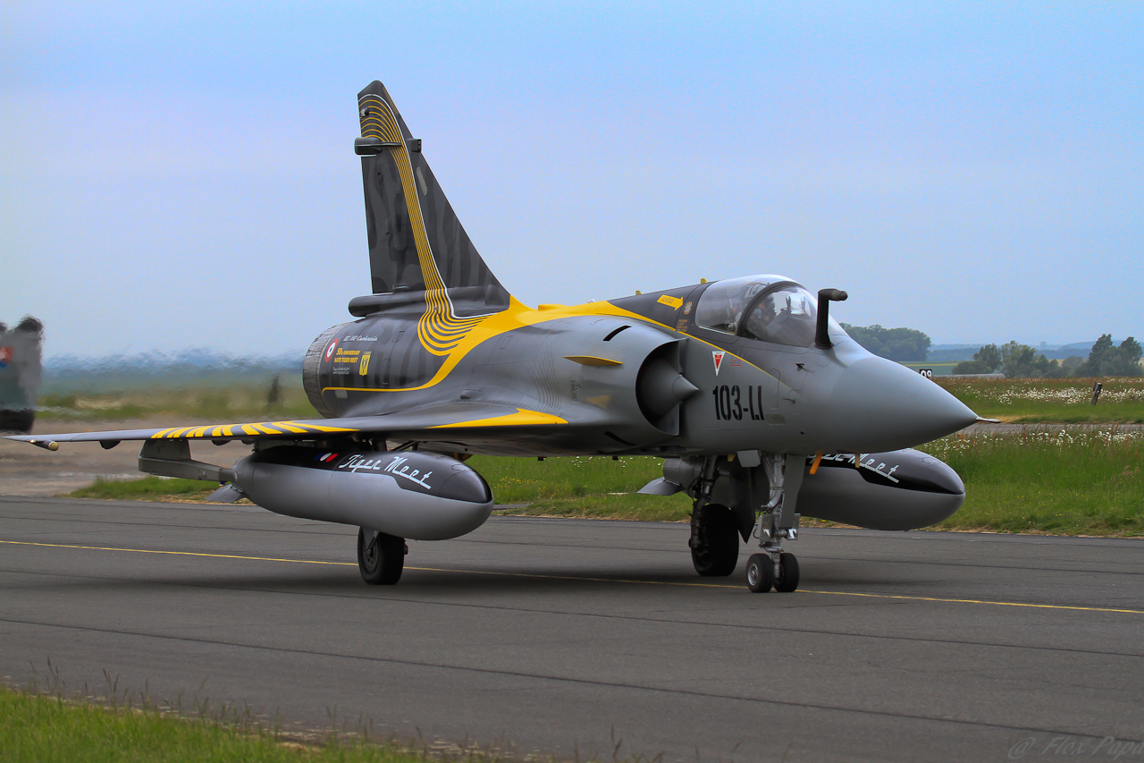 Mirage 2000 RDY French air Force